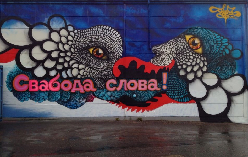 Graffiti mural Yttrandefrihet!/Cвабода слова!/Freedom of speech! painted 2012 in Alingsas, Sweden.